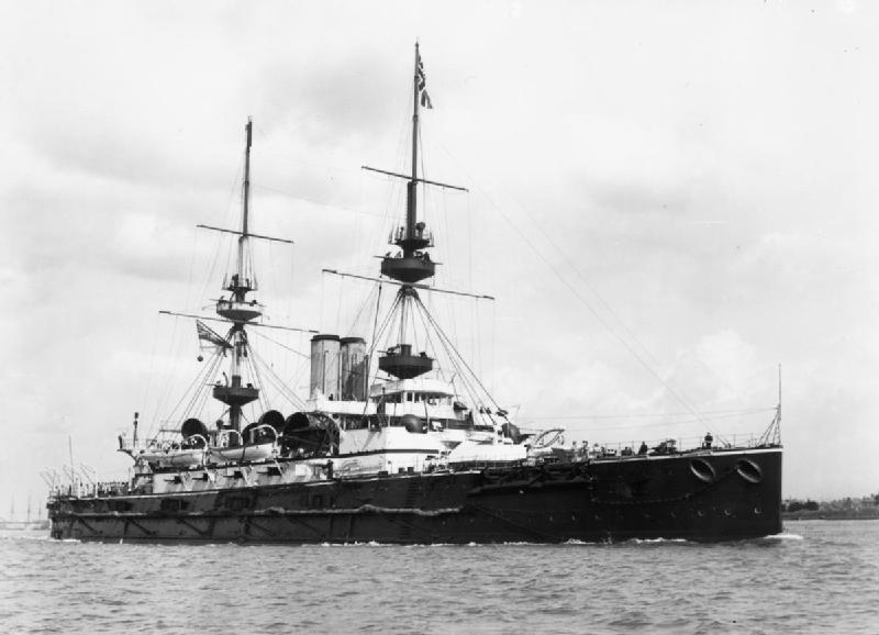 Majestic Class Battleships- Hms Mars HMS MARS under way, 1898.